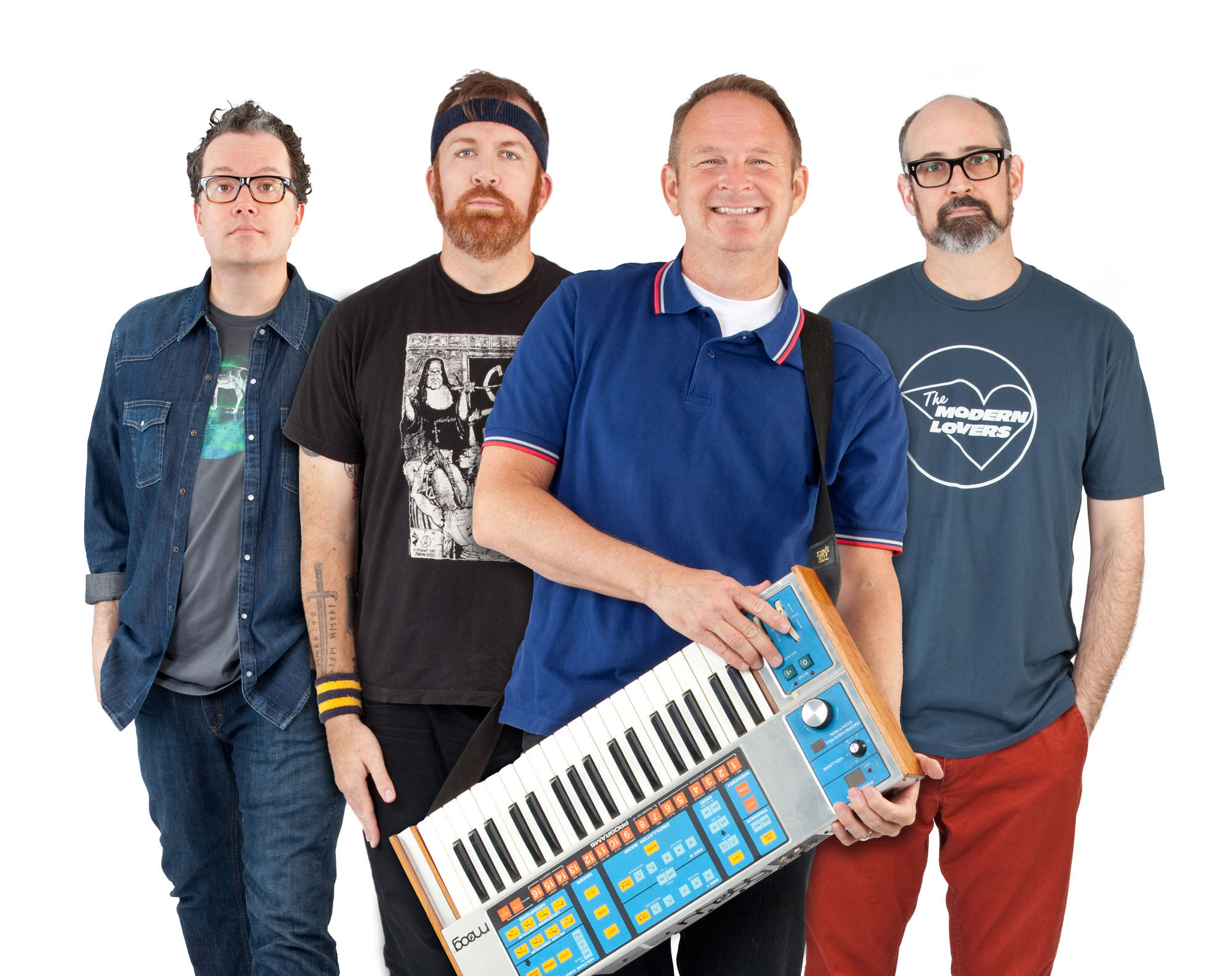 Press photo of Nerf Herder band members. (L-R) Ben Pringle (bass); Linus Dotson (guitar, keyboard); Parry Gripp (vocals, guitar); Steve Sherlock (drums).